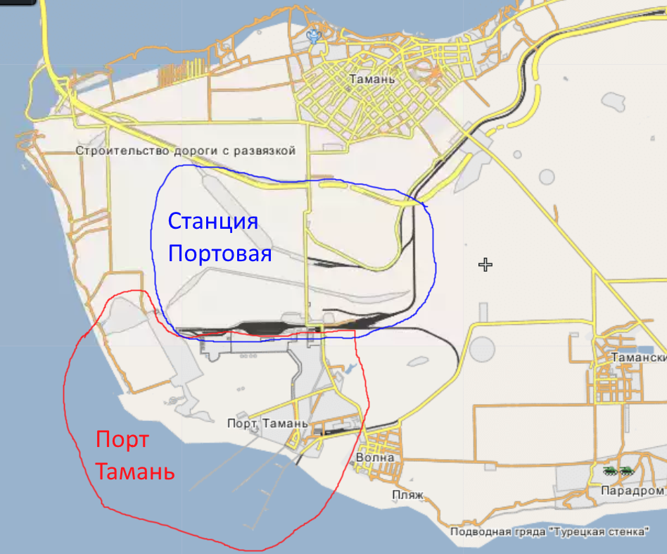 Portovaya Station and Taman Port